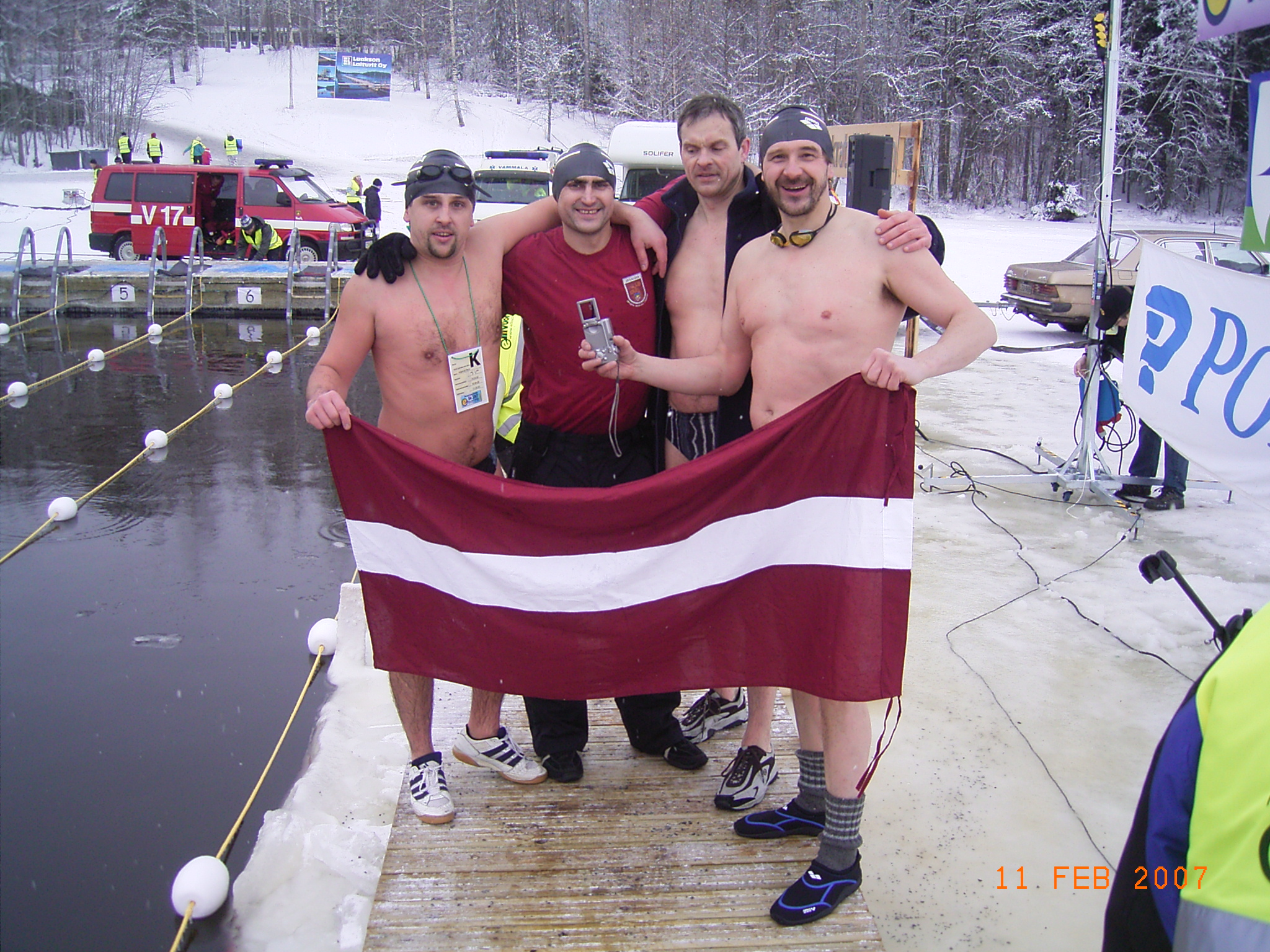 winter swimming championchip in Latvia